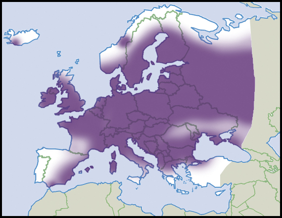 Zonitoides nitidus (Müller, 1774). Distribution in Europe, scientific state of knowledge of 2012. Source description in English. Light colour indicated rare occurrences or regions where the species could eventually be expected to occur. Dark colour indicated relatively reliable occurrences, as well as regions where the species was expected to occur, and where the species was not known to be extremely rare. Dark colour indications were not necessarily based on published records. Species summary in AnimalBase